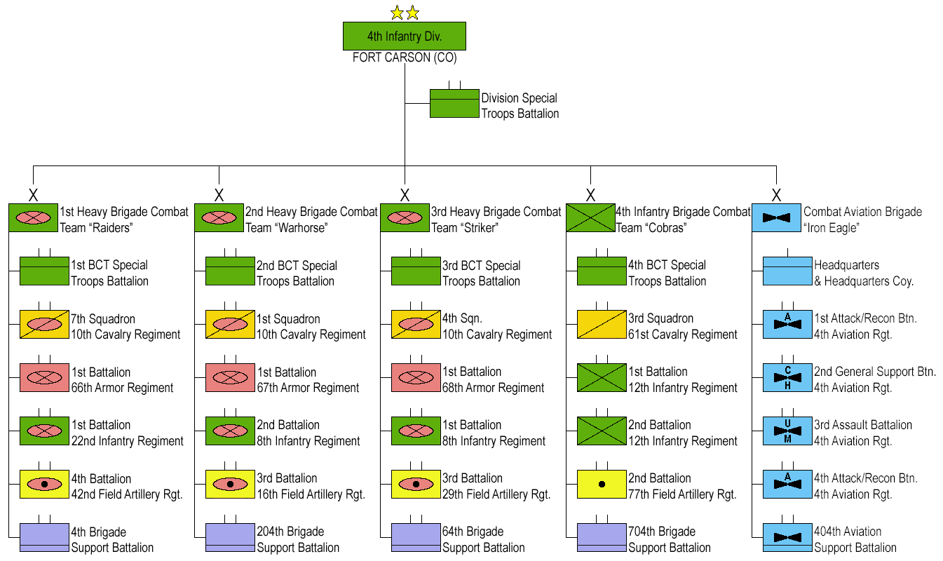 US Army 4th Infantry Division Structure